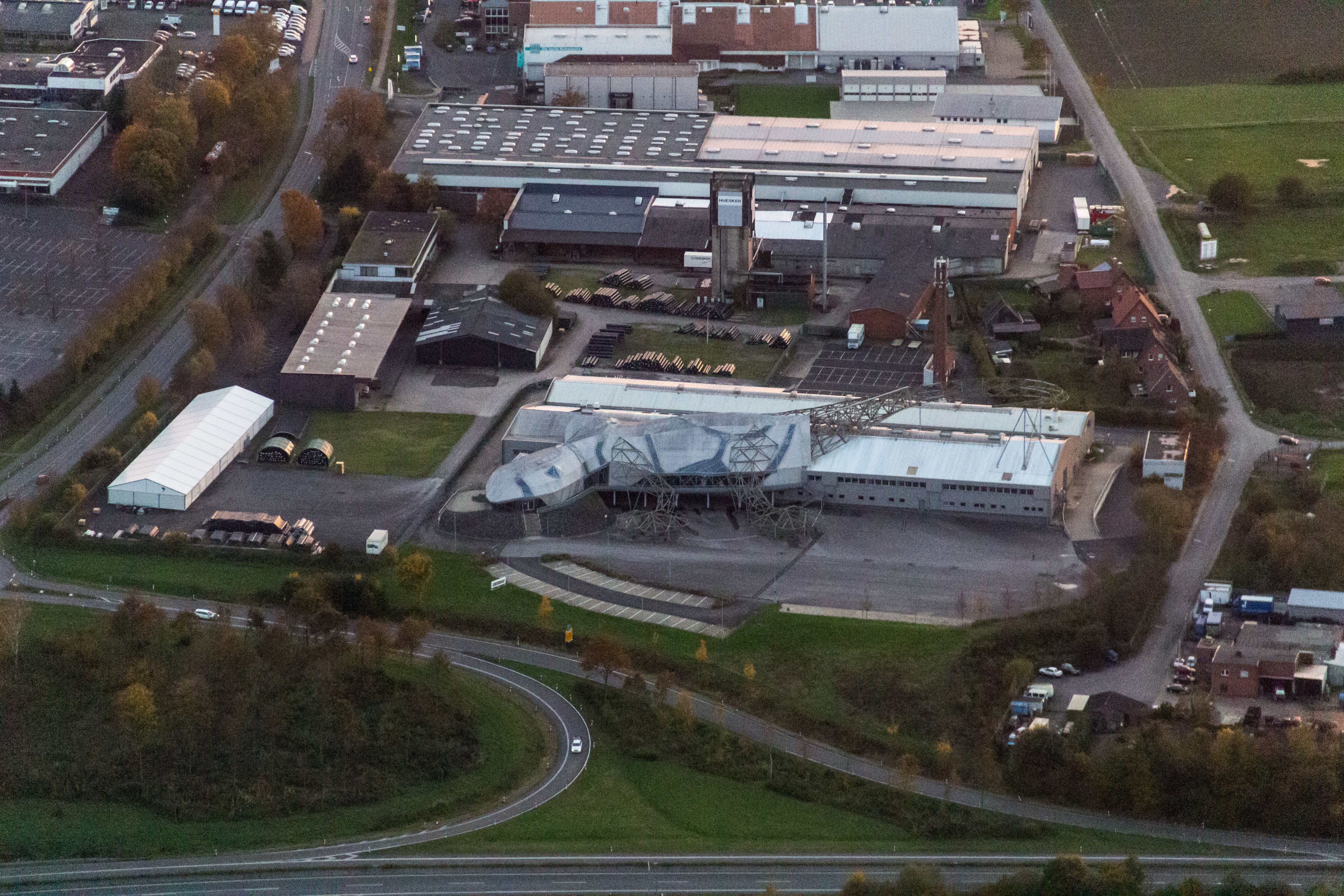 Former Company Wiesmann, Dülmen, North Rhine-Westphalia, Germany